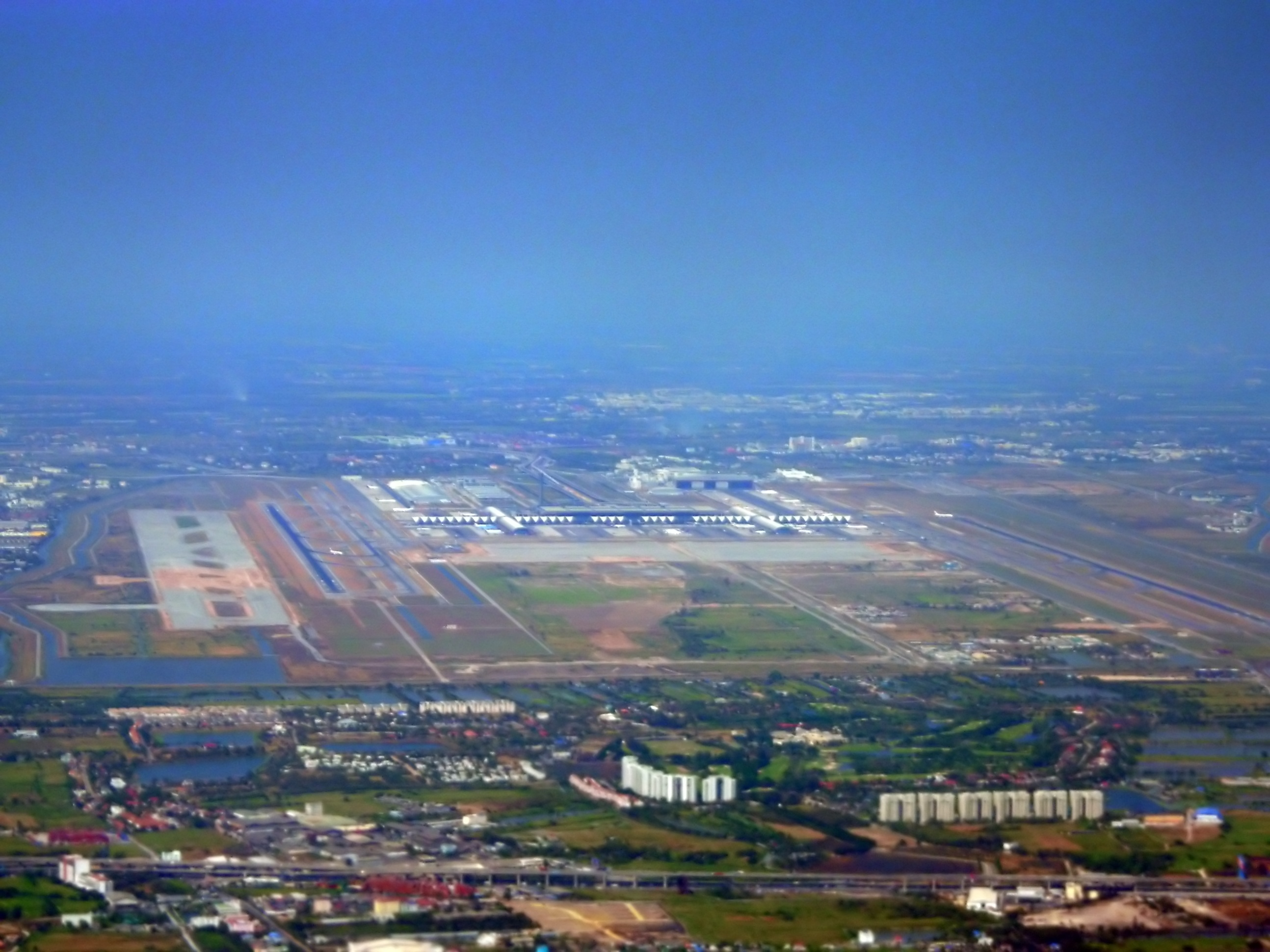 Aerial View of Suvarnabhumi International Airport, Bangkok, Thailand